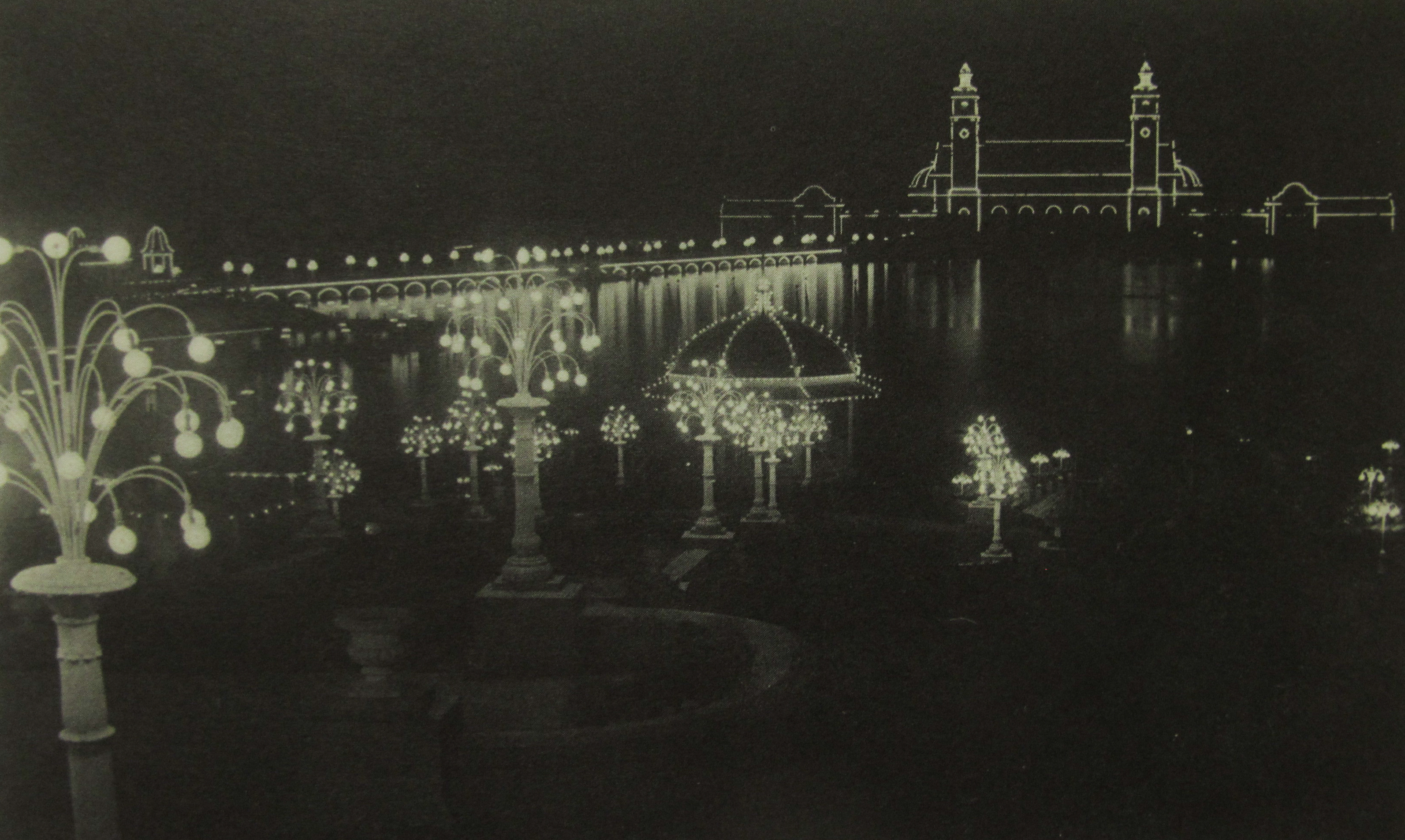 A view from the Grand Stairway of the Bridge of Nations and the U.S. Government Building